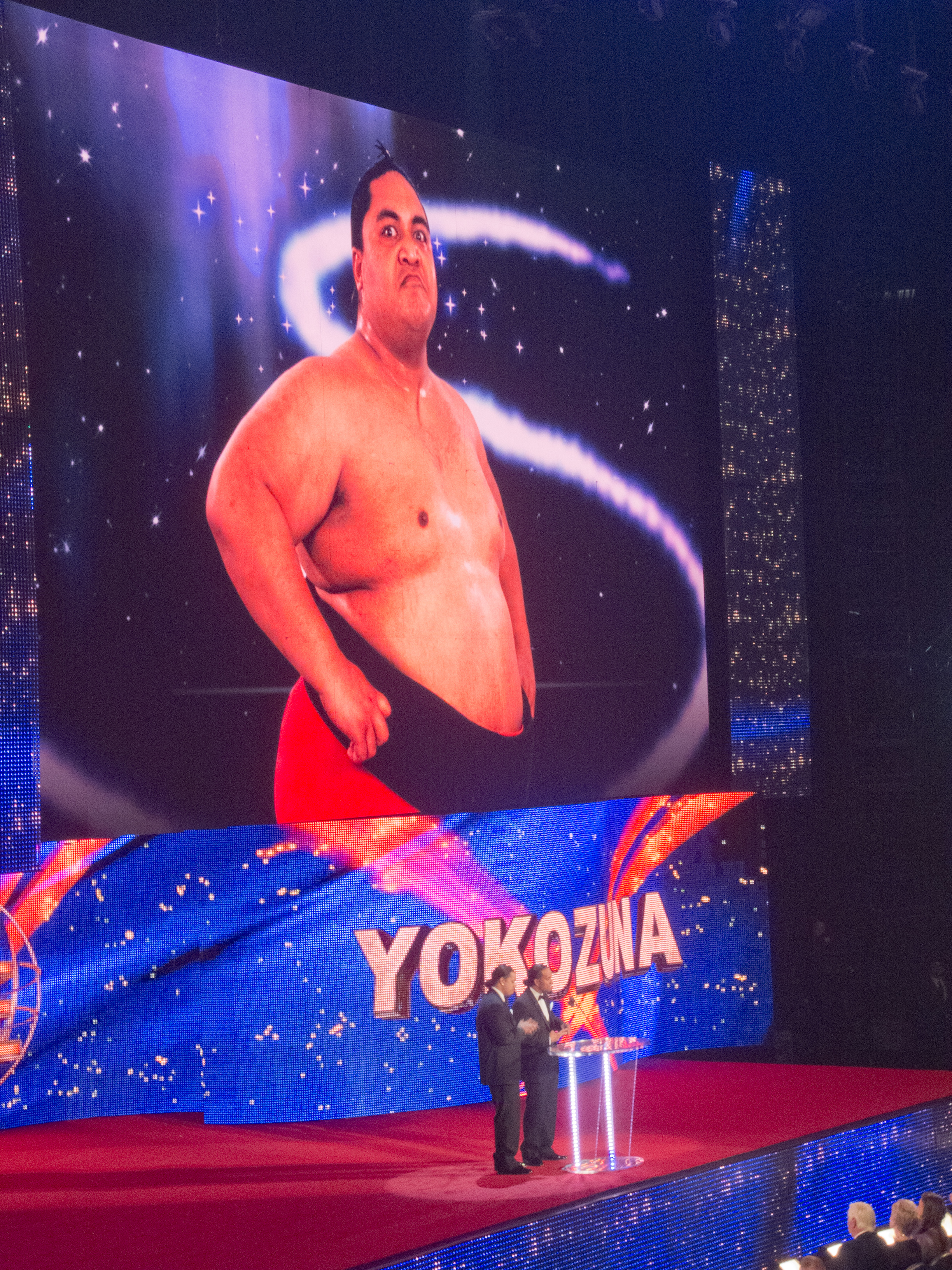 WWE Hall of Fame 2012 - Yokozuna